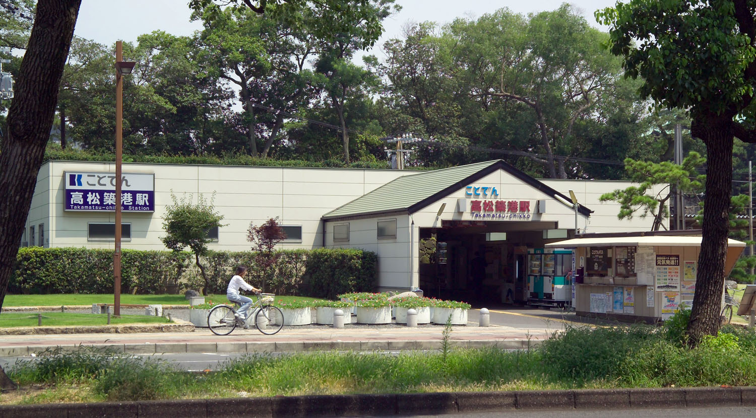 This is Takamatsu Chikko Station on the Takamatsu-Kotohira Electric Railway in Takamatsu, Kagawa Prefecture, Japan. I took the photo and contribute my rights in the file to the public domain; individuals and organizations retain rights to images in it.